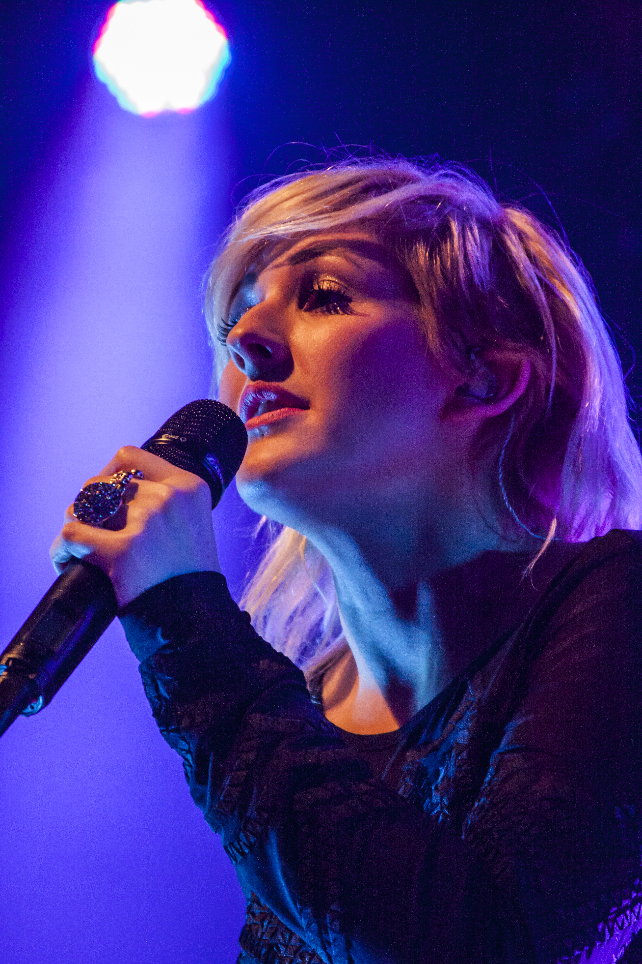 Ellie Goulding performing at the Manchester Academy on 17 December 2012.